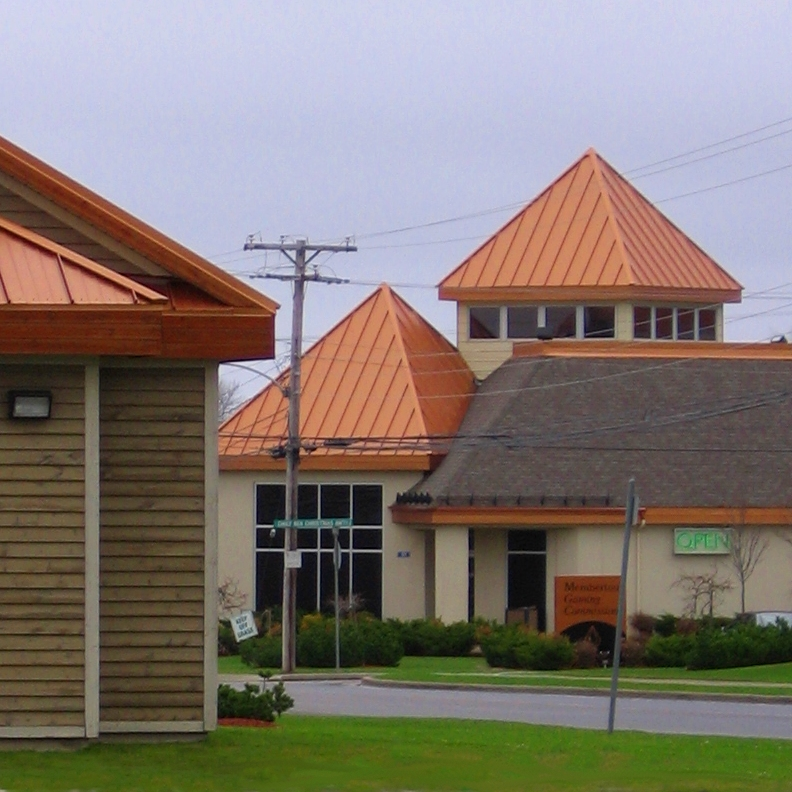 Copper roofs in commercial area of Membertou FN, Sydney, NS